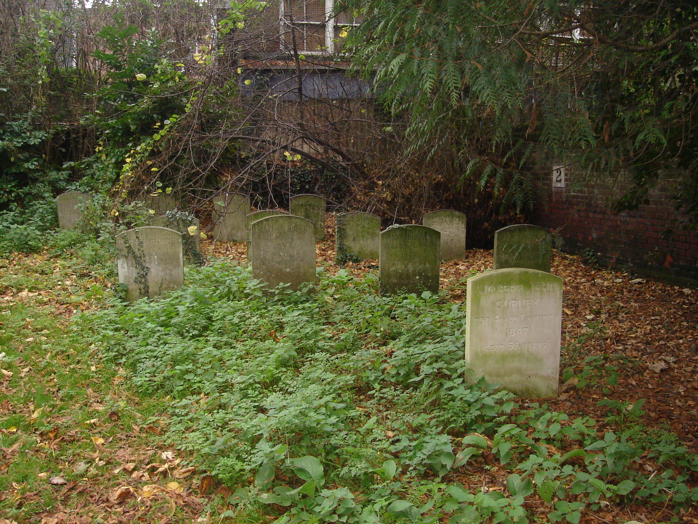 A picture of the Gurney family burial plot at the Gildencroft Quaker Cemetery